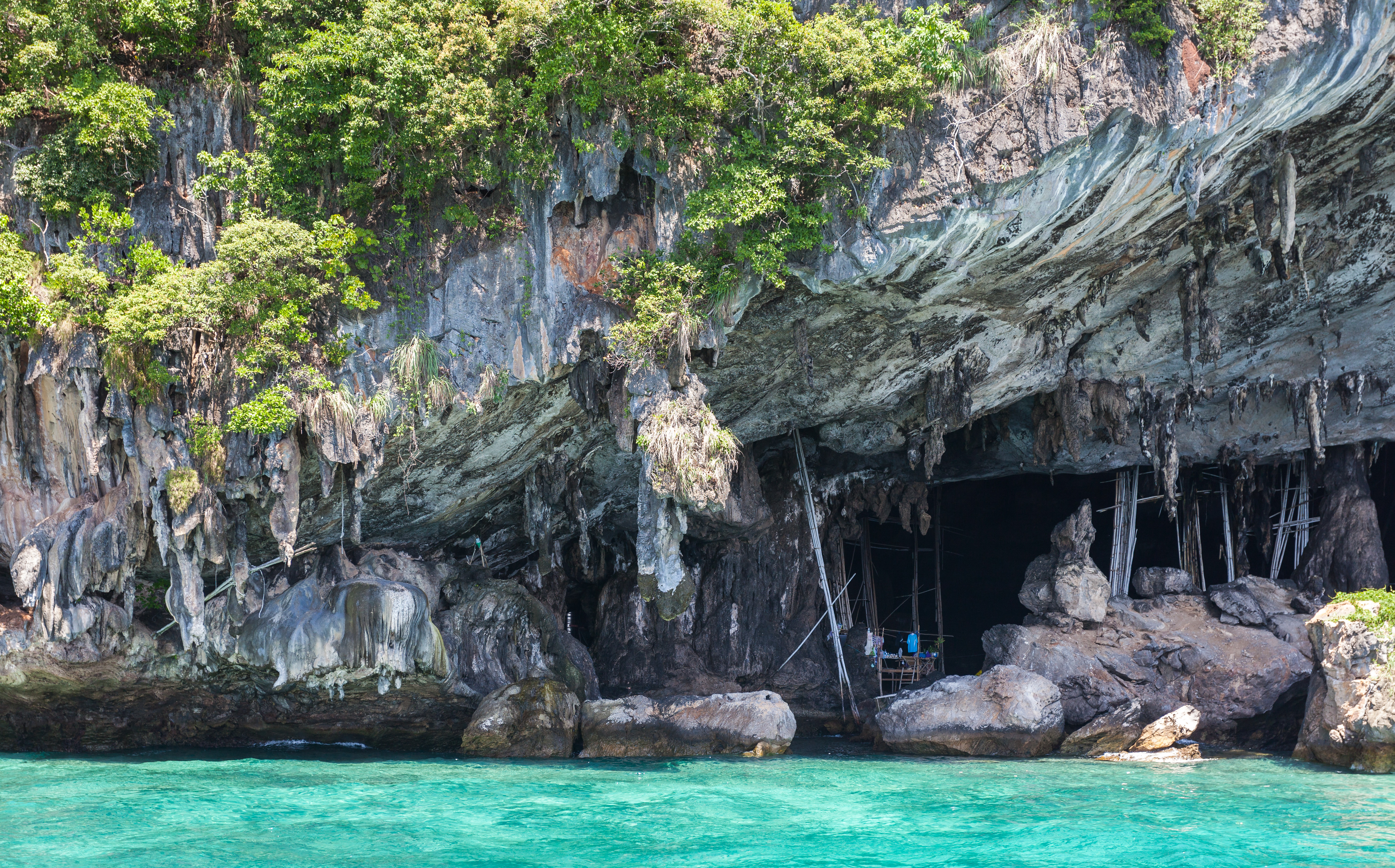 Phi Phi Lay Island, Thailand